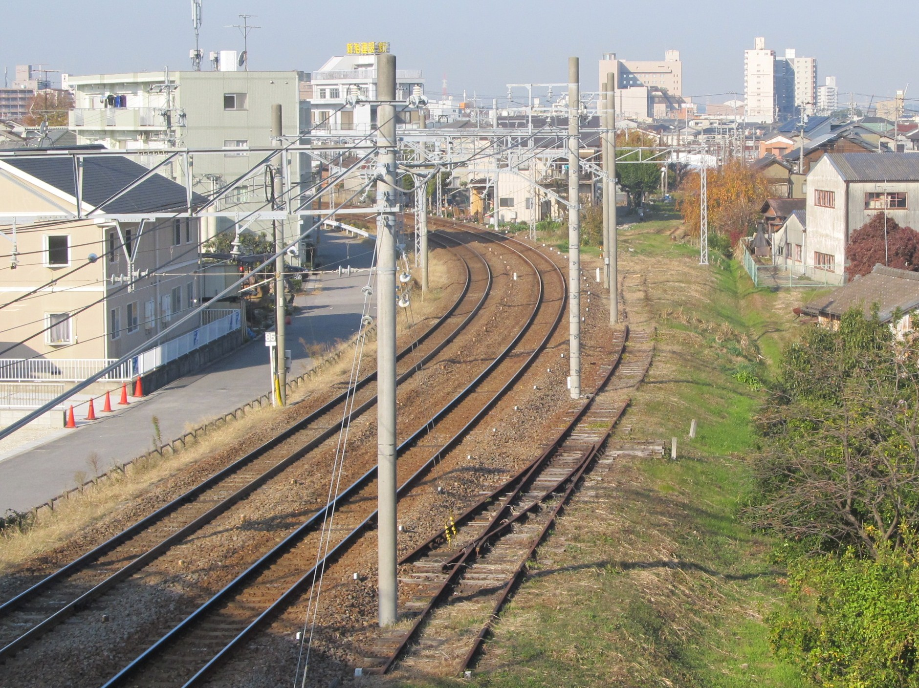 Nagoya Railroad Nagoya Main Line Chiryū (Abandoned) Signal Stop trace